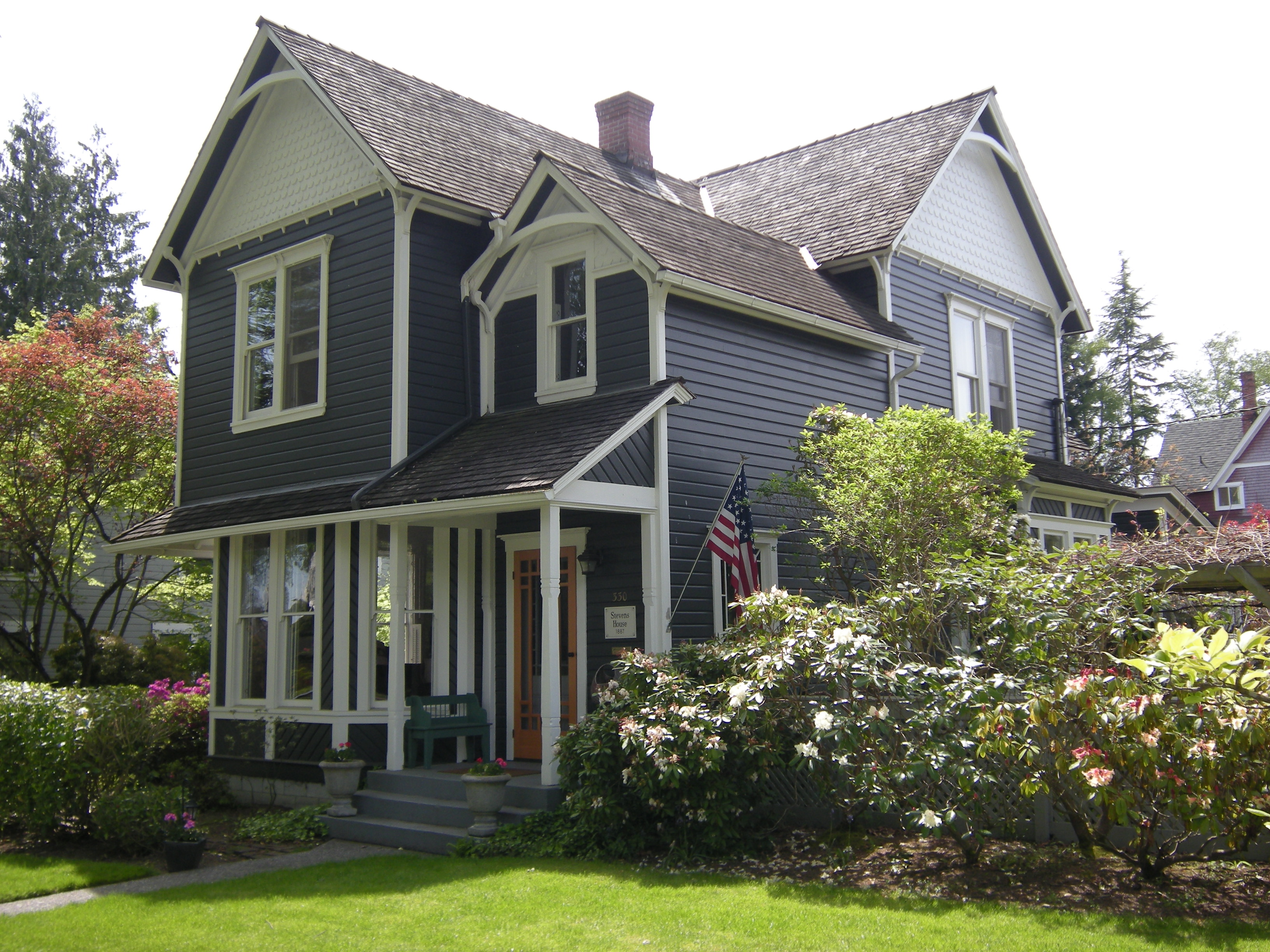 Stevens House, 330 Avenue B, Snohomish, Washington, USA. Built in 1887. John Stevens, for whom this house was built, is the namesake of Stevens Pass.